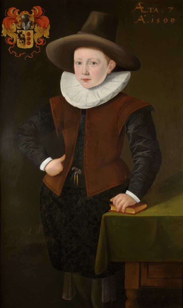 Portrait of Hector van Bouricius, aged 7.